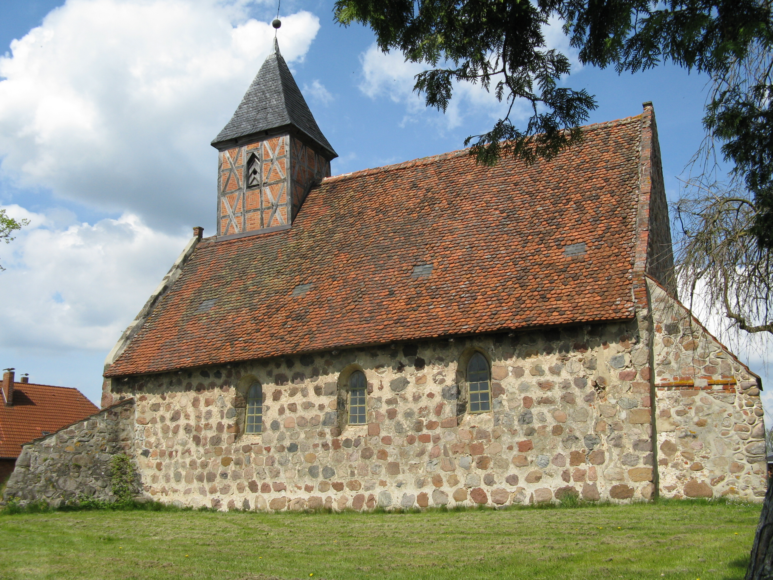 Church in Milow, district Ludwigslust-Parchim, Mecklenburg-Vorpommern, Germany